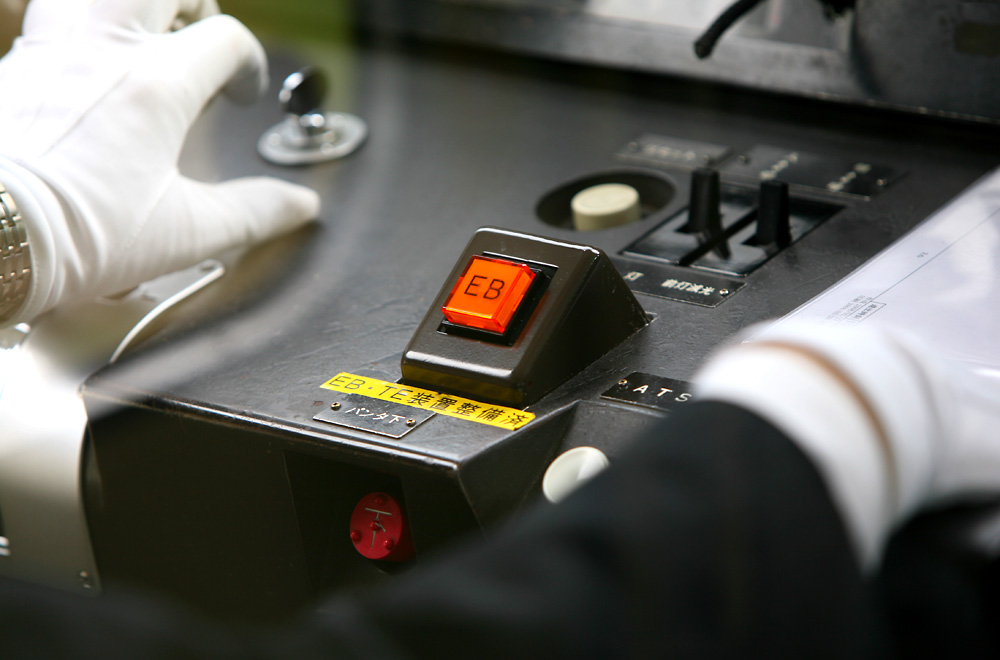 Emergency break reset switch of JR West 221 series EMU